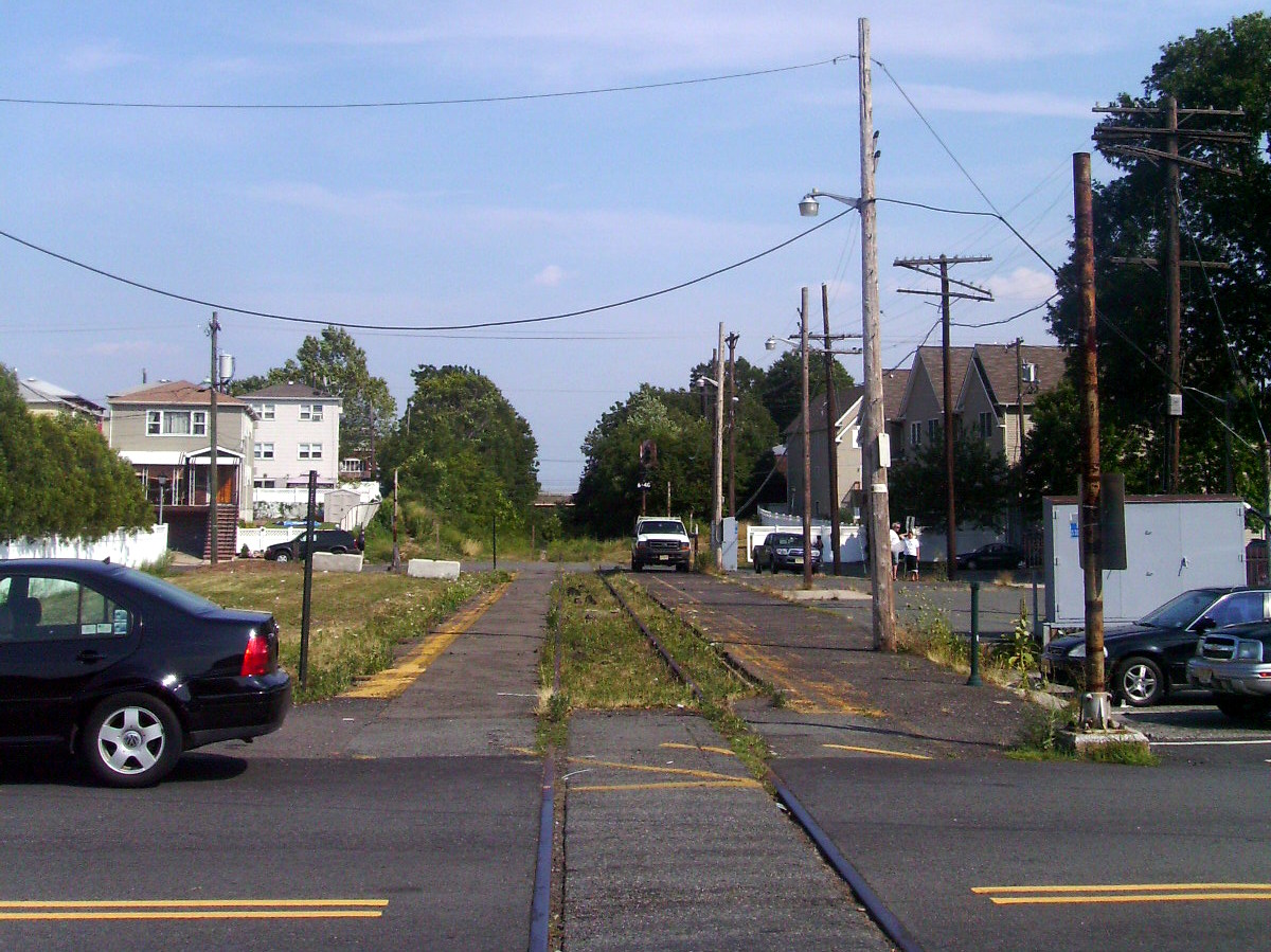 The former Arlington station for New Jersey Transit's Boonton Line, seen nearly eight years after the last train passed through on September 30, 2002. The station platforms are intact, although the former building used by the Erie Railroad is long gone.